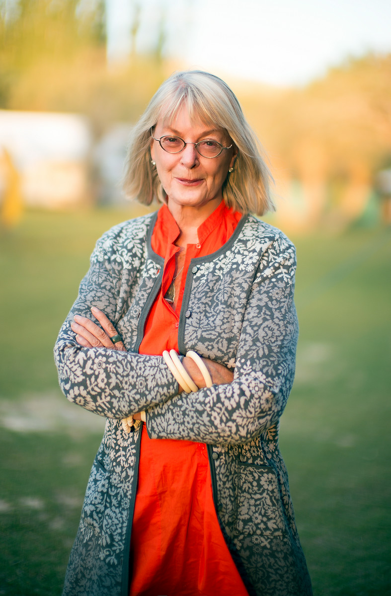 Nena Thurman by Christopher Michel. Taken in Ladakh, India.